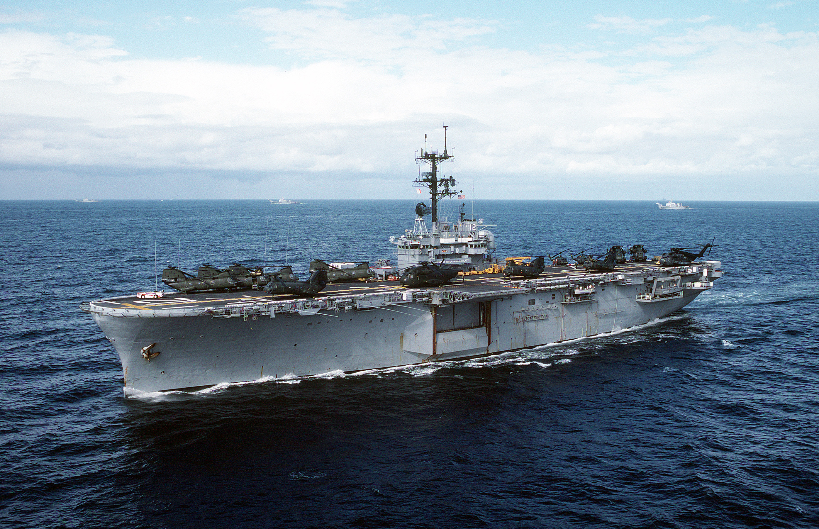 A port bow view of the amphibious assault ship USS INCHON (LPH-12) underway during NATO Exercise Northern Wedding '86.